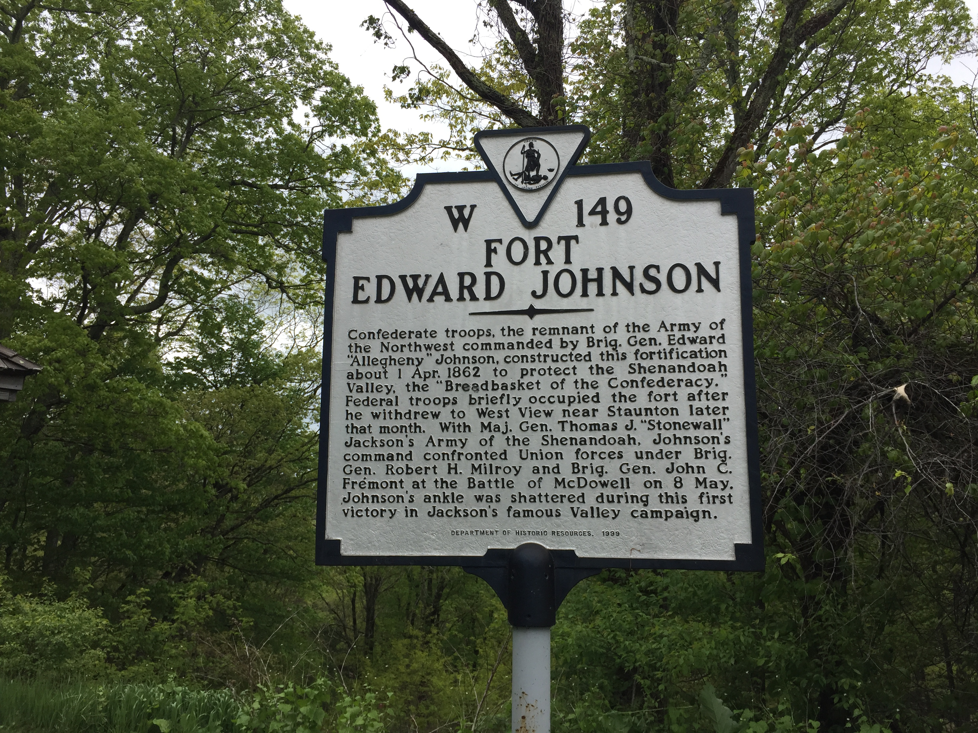 Historical marker describing Fort Edward Johnson, Virginia